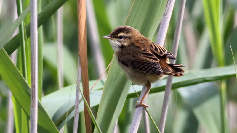 Sedge Warbler (Acrocephalus schoenobaenus)